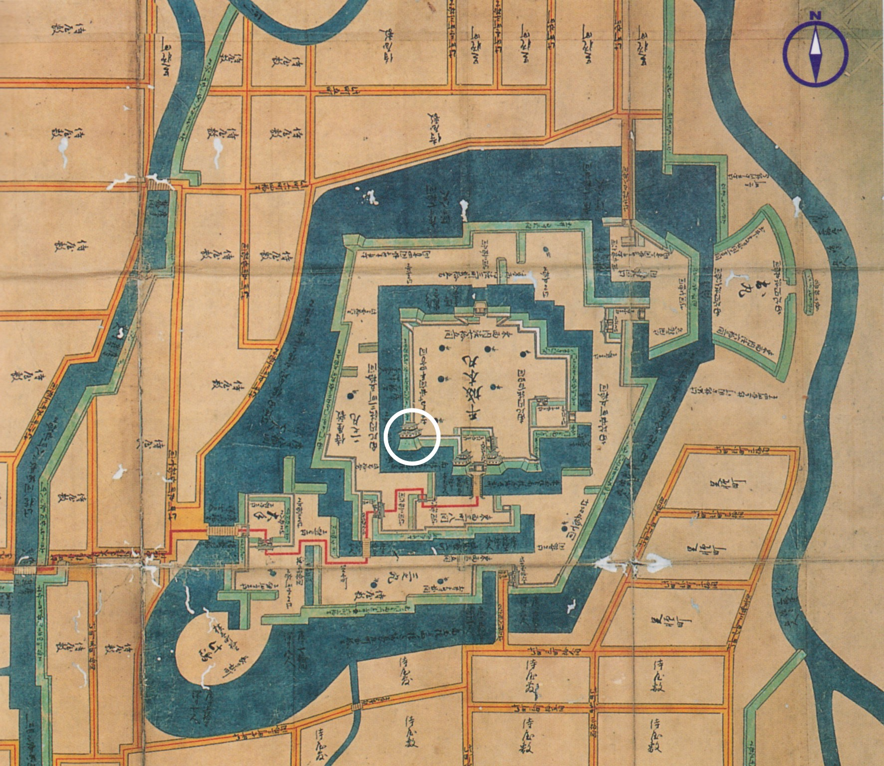 Takada castle, Japan